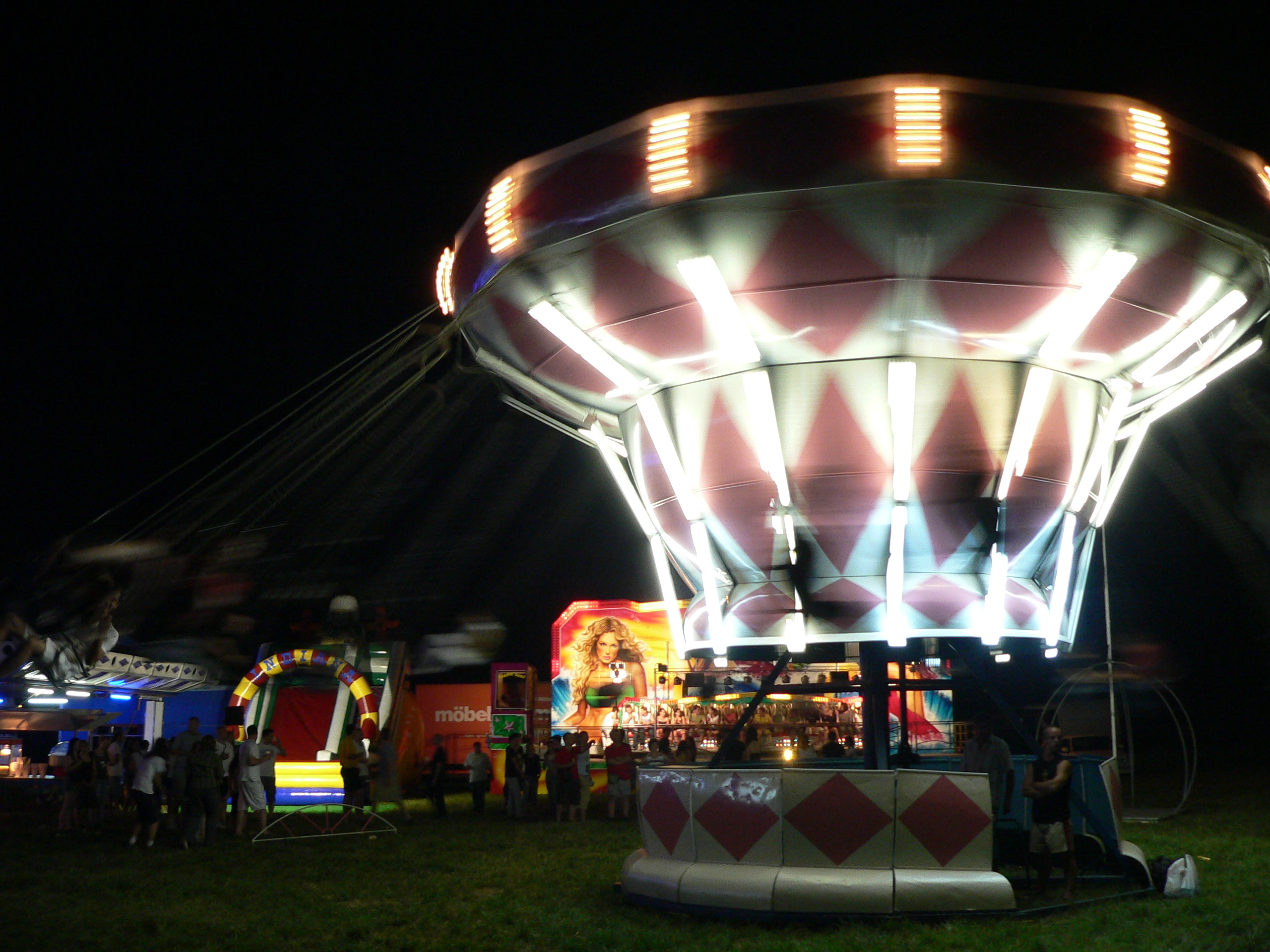 Carousel in the Bundek Park in Zagreb during Summer Festival